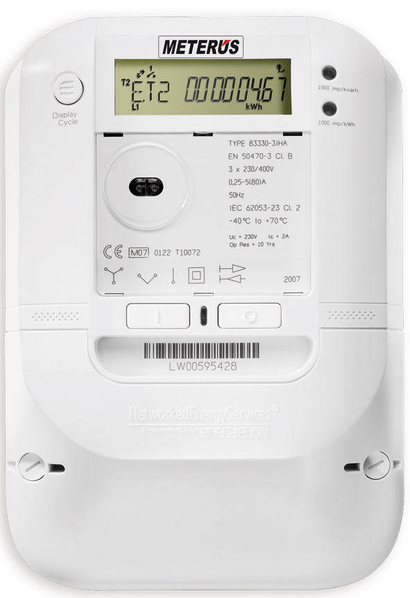 Smart meter used by EVB Energie AG. Besides Automatic meter reading features, it uses two way communication for smart meter ability to reduce load, and connect/ reconnect remotely, and interface to gas & water meters. First operational field tests in August 2006. This is according to promo information from manufacturer, and is dated 2008-02, mentioning field test only in the hundreds, so it is not clear how widely this meter is being used.